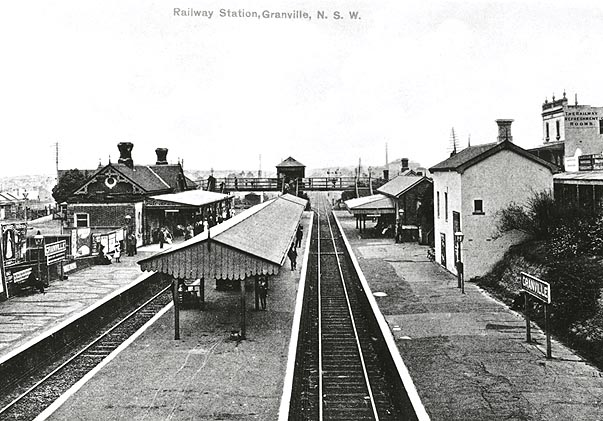 Granville Railway Station Dated: c. 01/01/1890 Digital ID